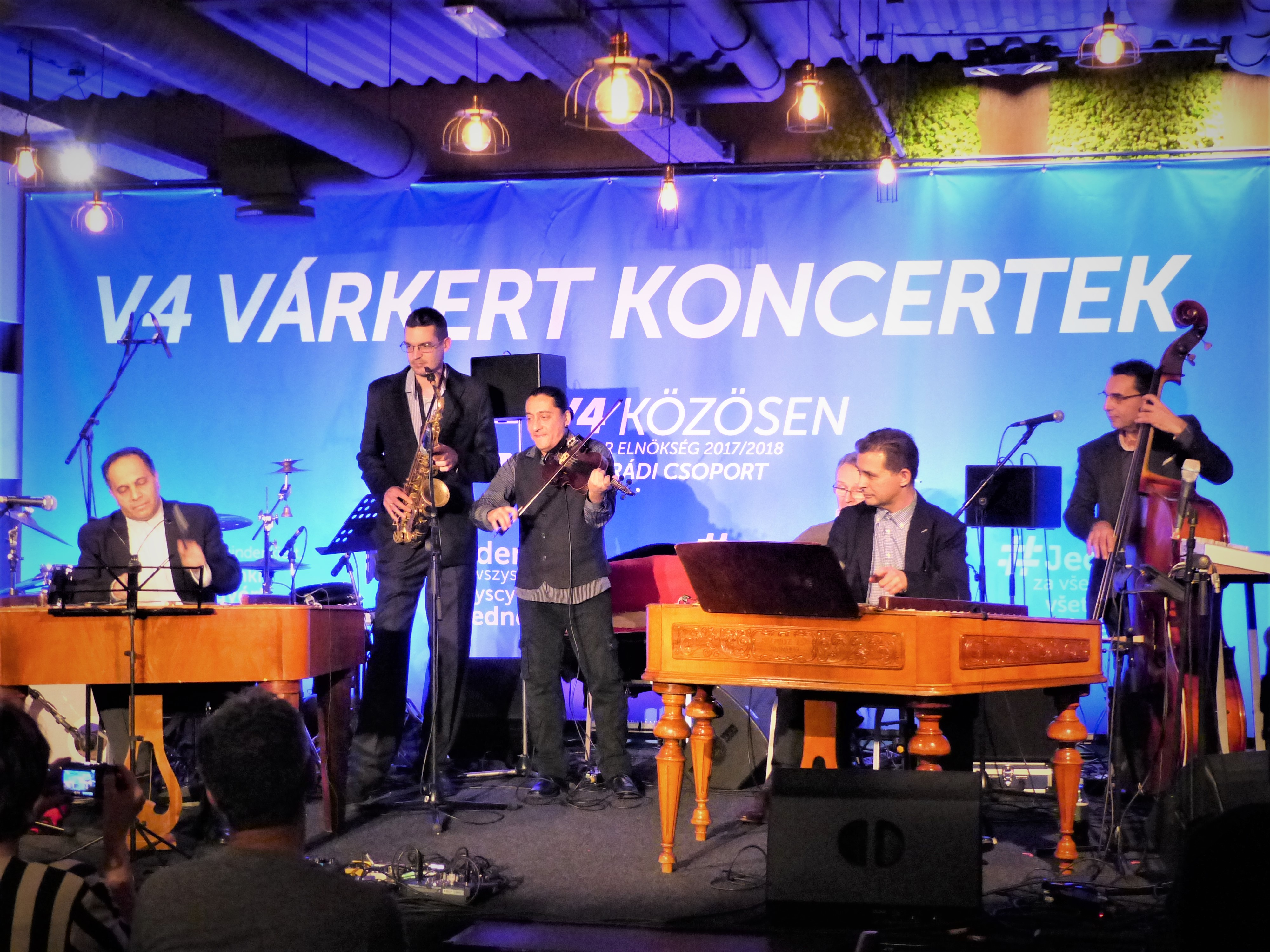 Taken on the 1st of December, 2017. V4 concerts, Balogh Kálmán, Lukács Miklós Gipsy Cimbalom Duo. Várkert Bazár, Budapest, Central Europe. Lineup: Balogh Kálmán, Lukács Miklós, Pesti László, Bede Péter, Látó Ferenc, Novak Csaba.